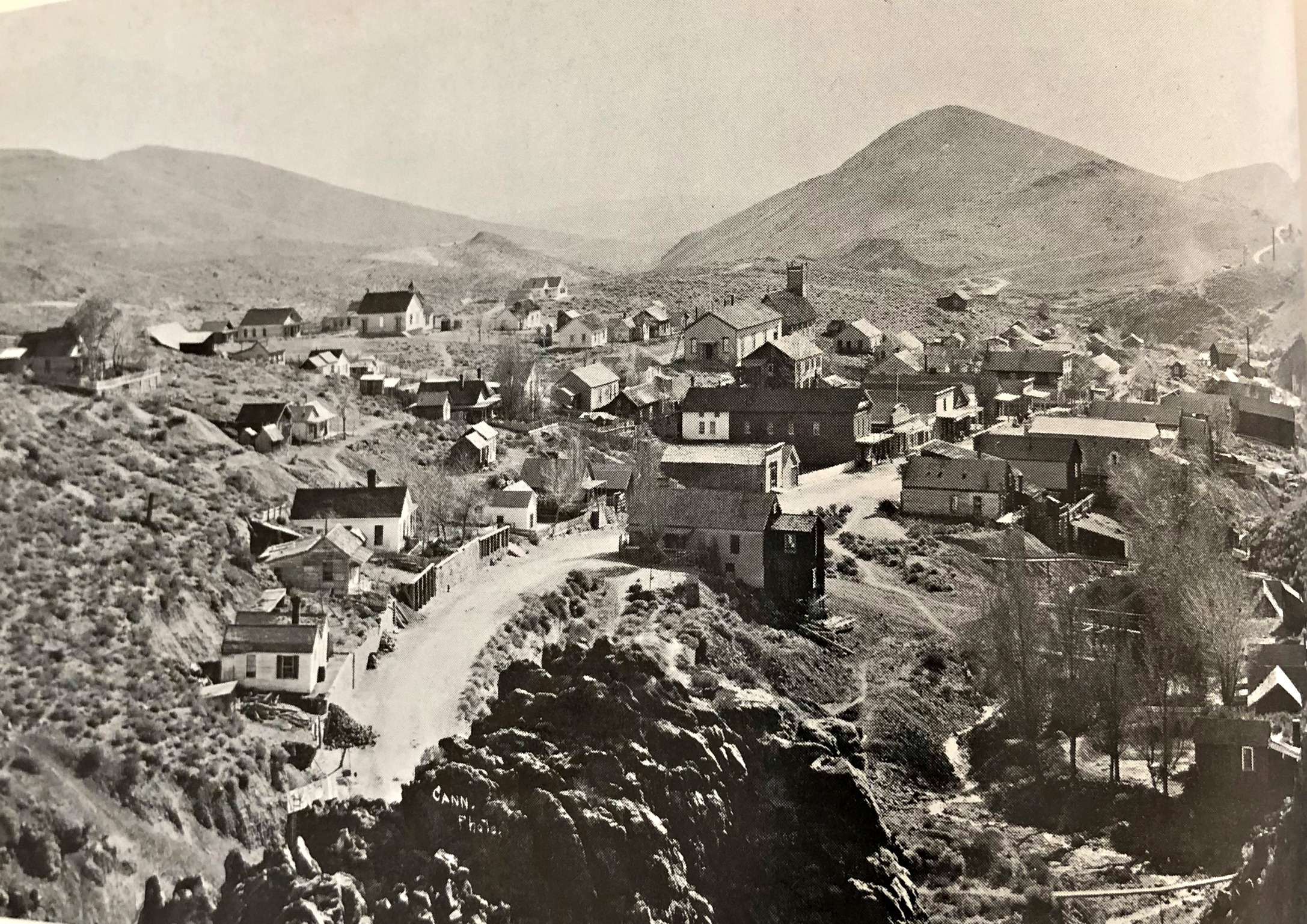 Silver city, overlooking Gold Canyon, from a point above Devil's Gate, before 1900